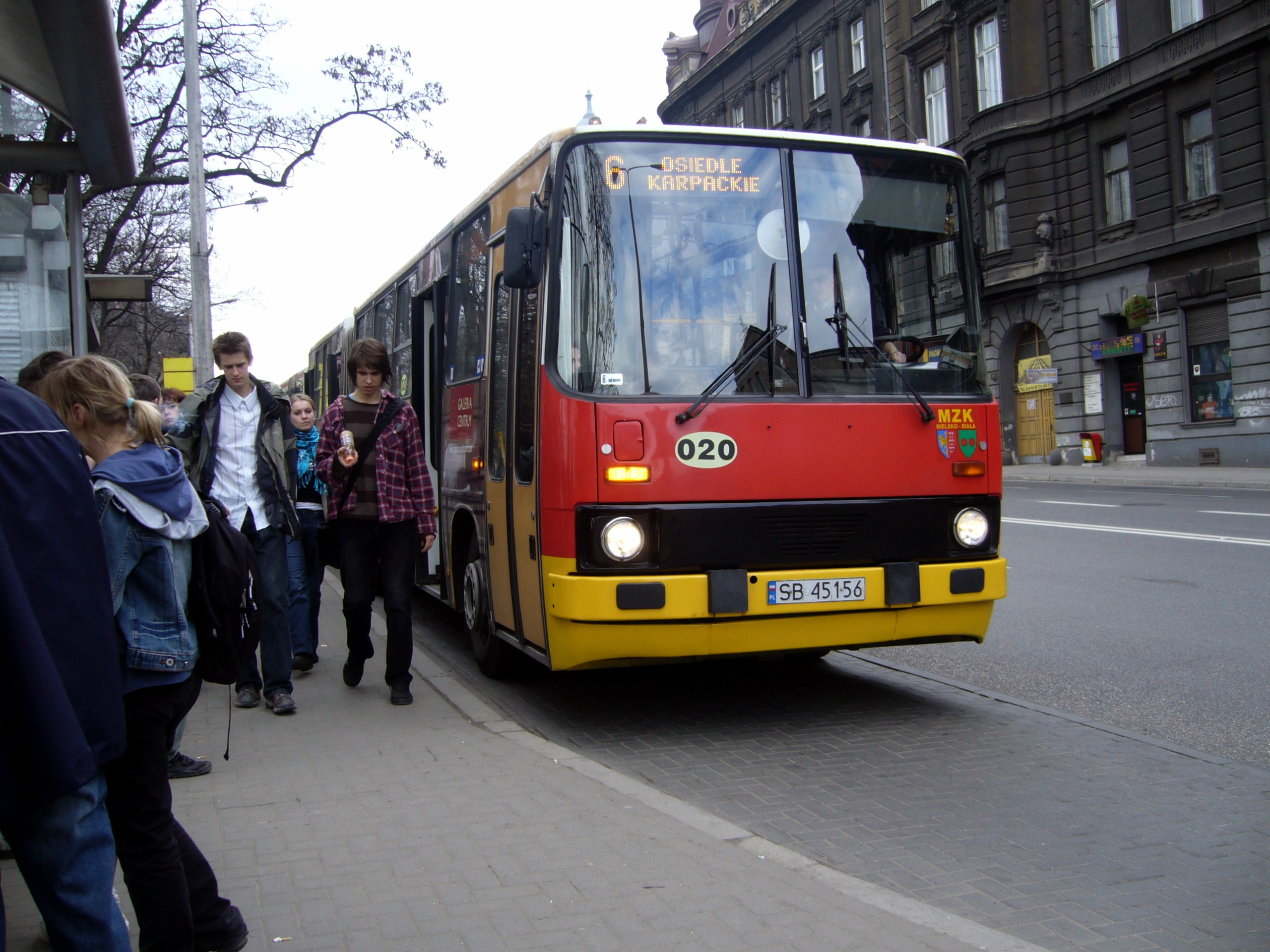 Ikarus 280.37B bus (#020, built 1994) in Bielsko-Biała, Poland. Bus stop on 3 Maja Street.